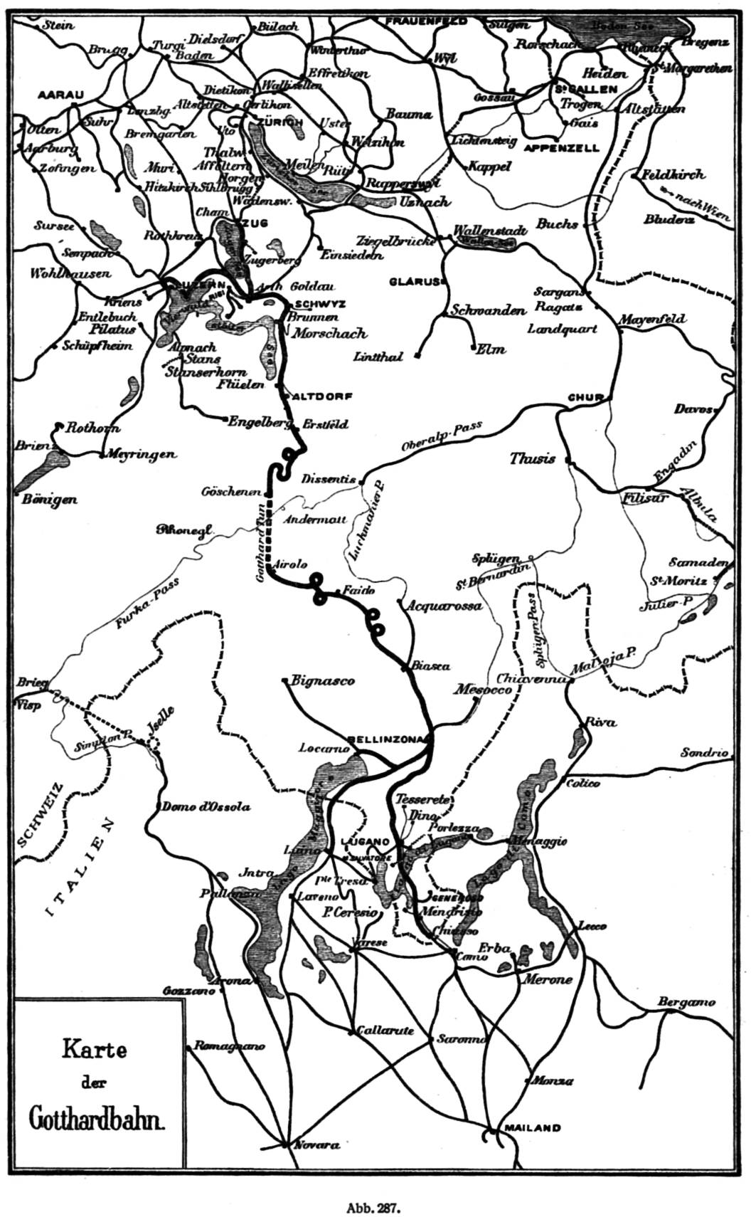 Outline of the Gotthardbahn from Luzern to Chiasso in Switzerland including branchlines. The map shows the Gotthardbahn linking the northern and souther European railway networks. The technological aspect of realizing the Gotthardbahn with spiral tunnels and the Gotthardbahn tunnel is also addressed.